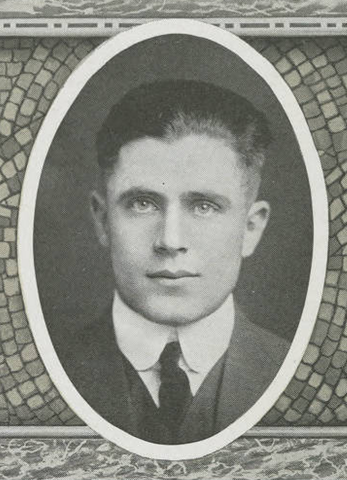 T. T. McConnell